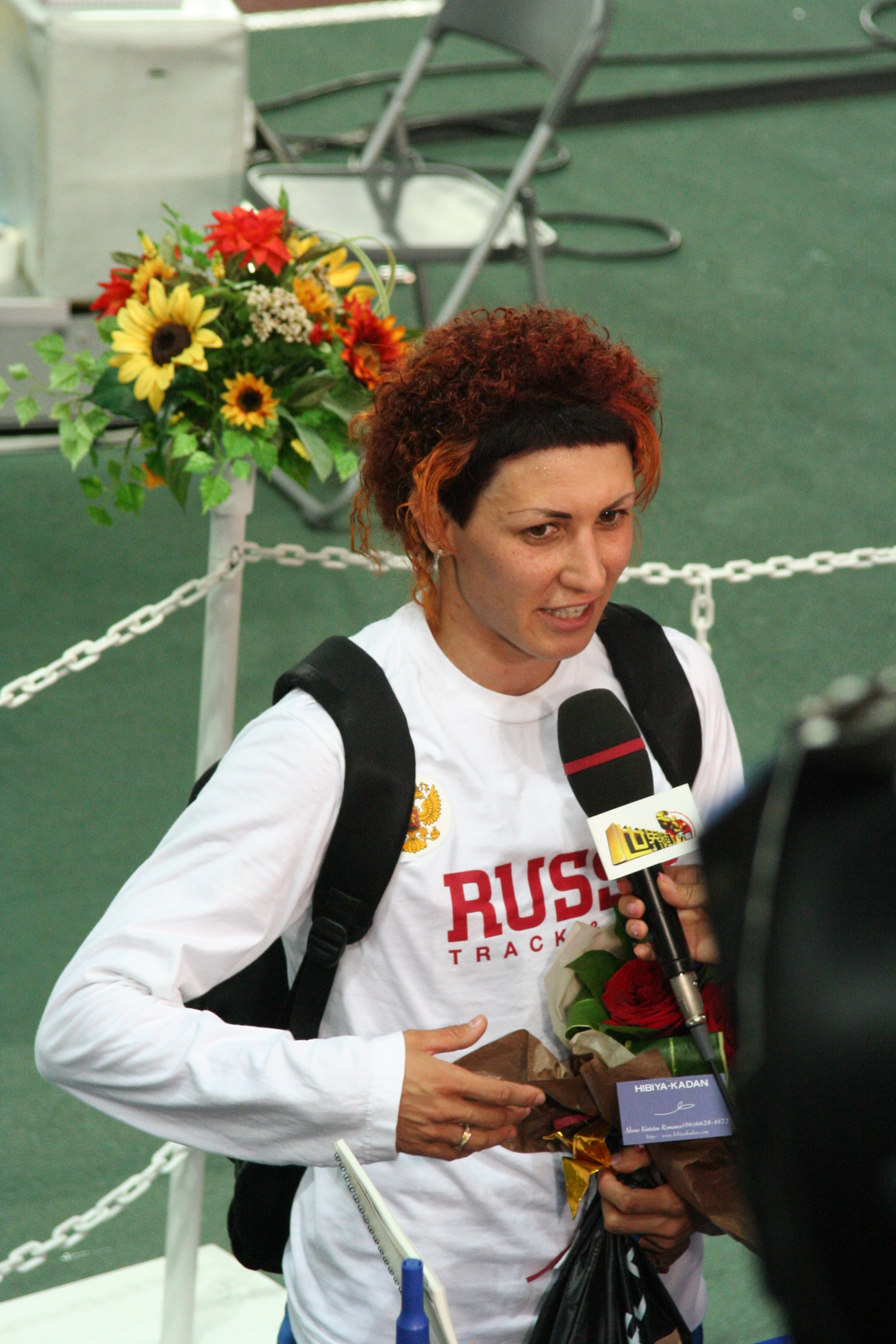 World Athletics Championships 2007 in Osaka - women's long jump winner Tatyana Lebedeva giving an interview after her victory